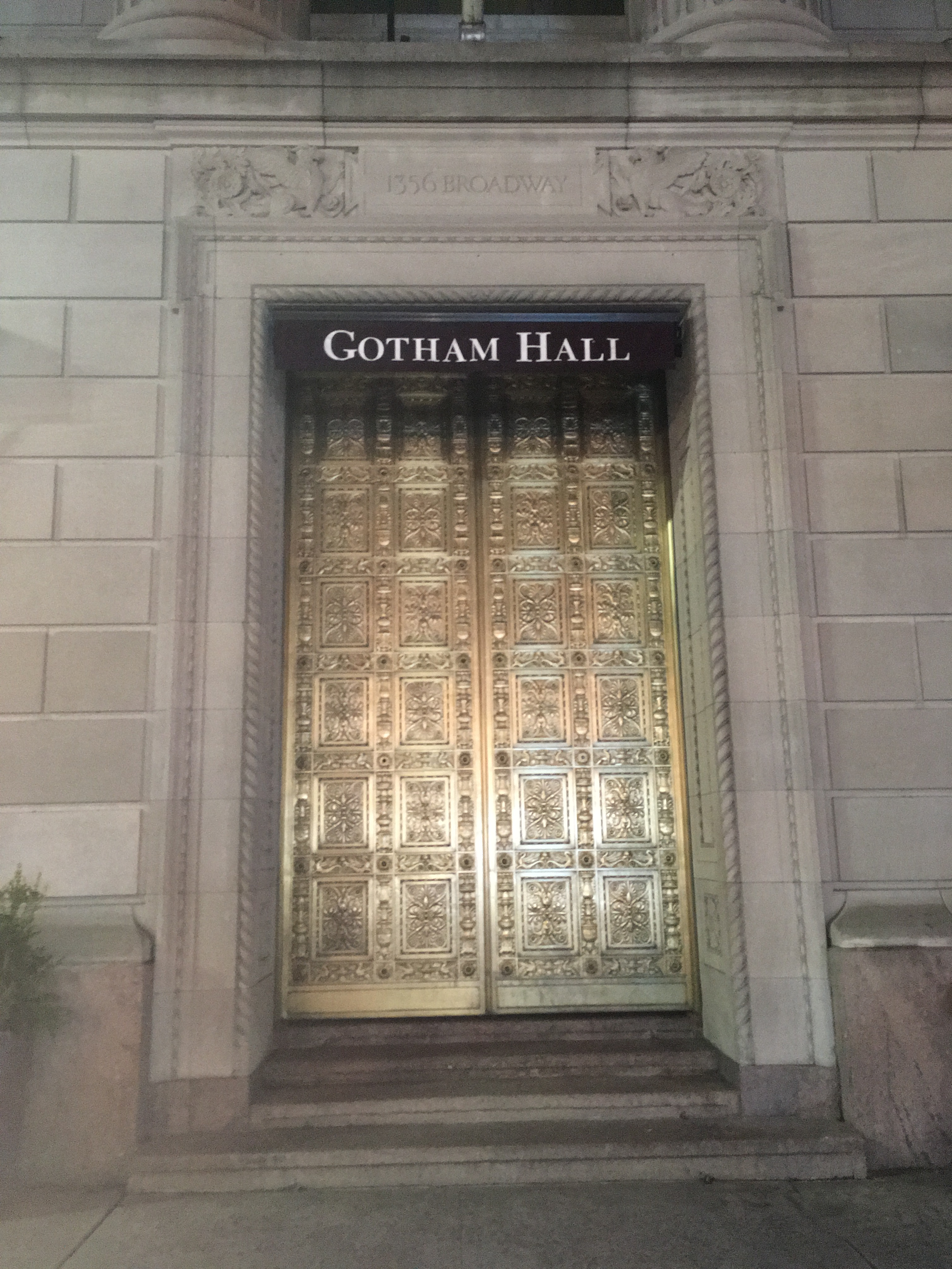 Gothan Hall in New York City, New York, USA. The front door to Greenwich Savings Bank.